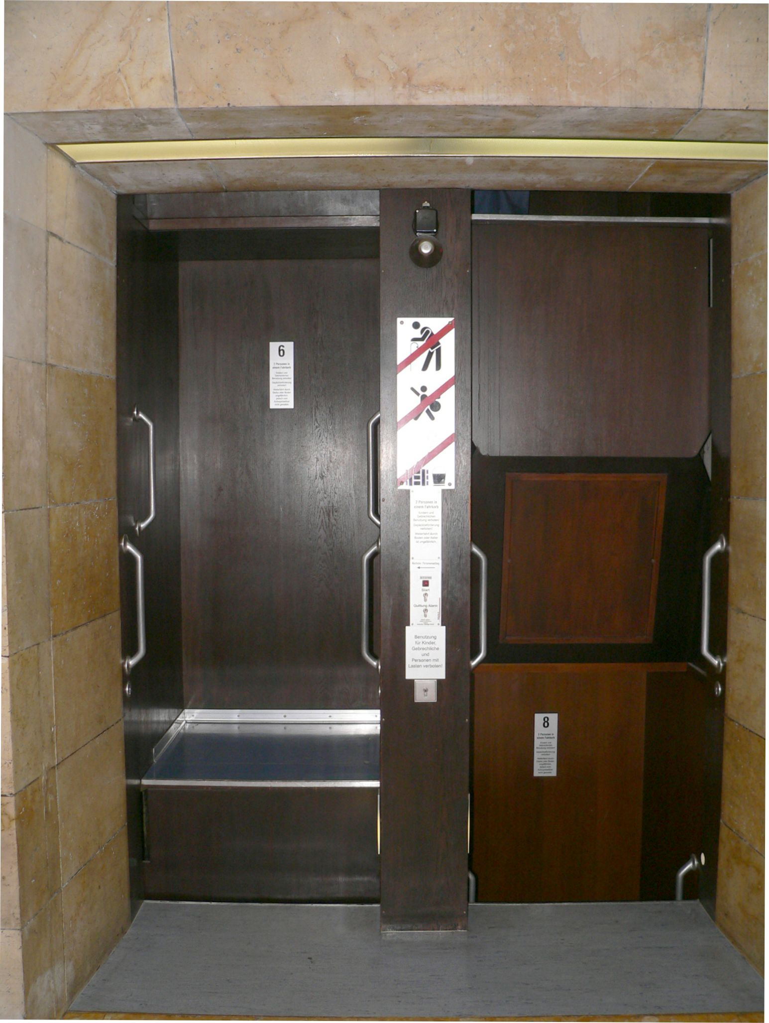 Paternoster lift in the city hall in Stuttgart, Germany